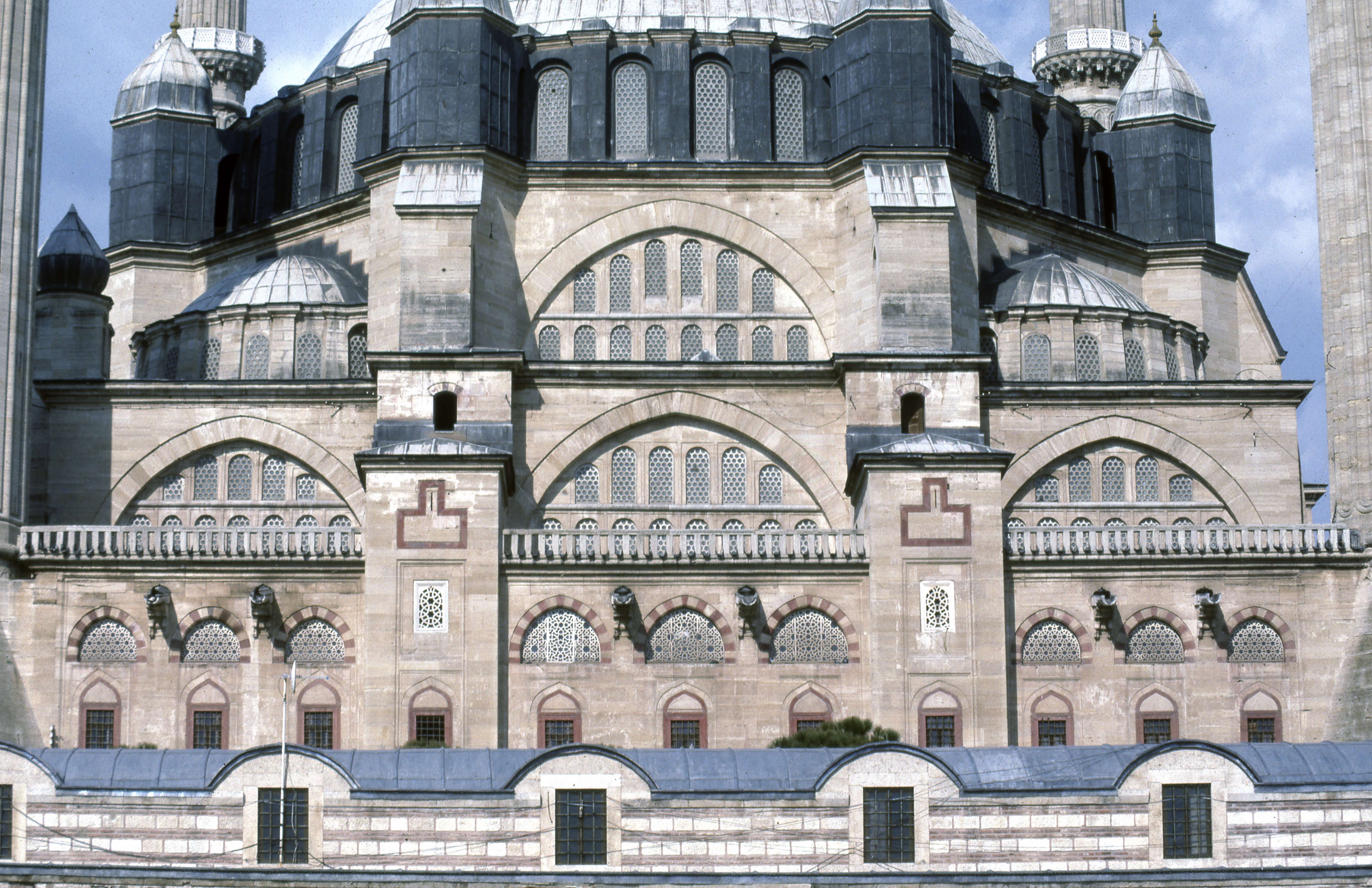 built by architect Sinan for Sultan Selim II. The mosque is the pinnacle of classical Ottoman building. Sinan called the Princes’ (Şezade) Mosque in Istanbul his apprentice work, the Süleymaniye his journeyman’s work, and the Selimiye his masterpiece. He was 85 when he finished it.